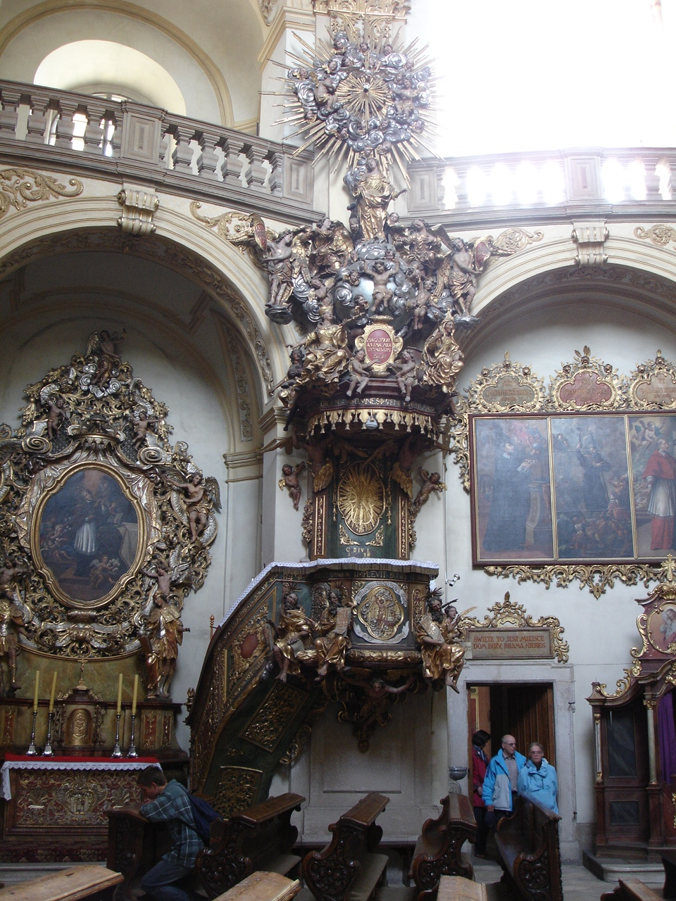 Pulpit by Karl Sebastian Flacker in the Pilgrimage church at Wambierzyce (Albendorf), Poland.